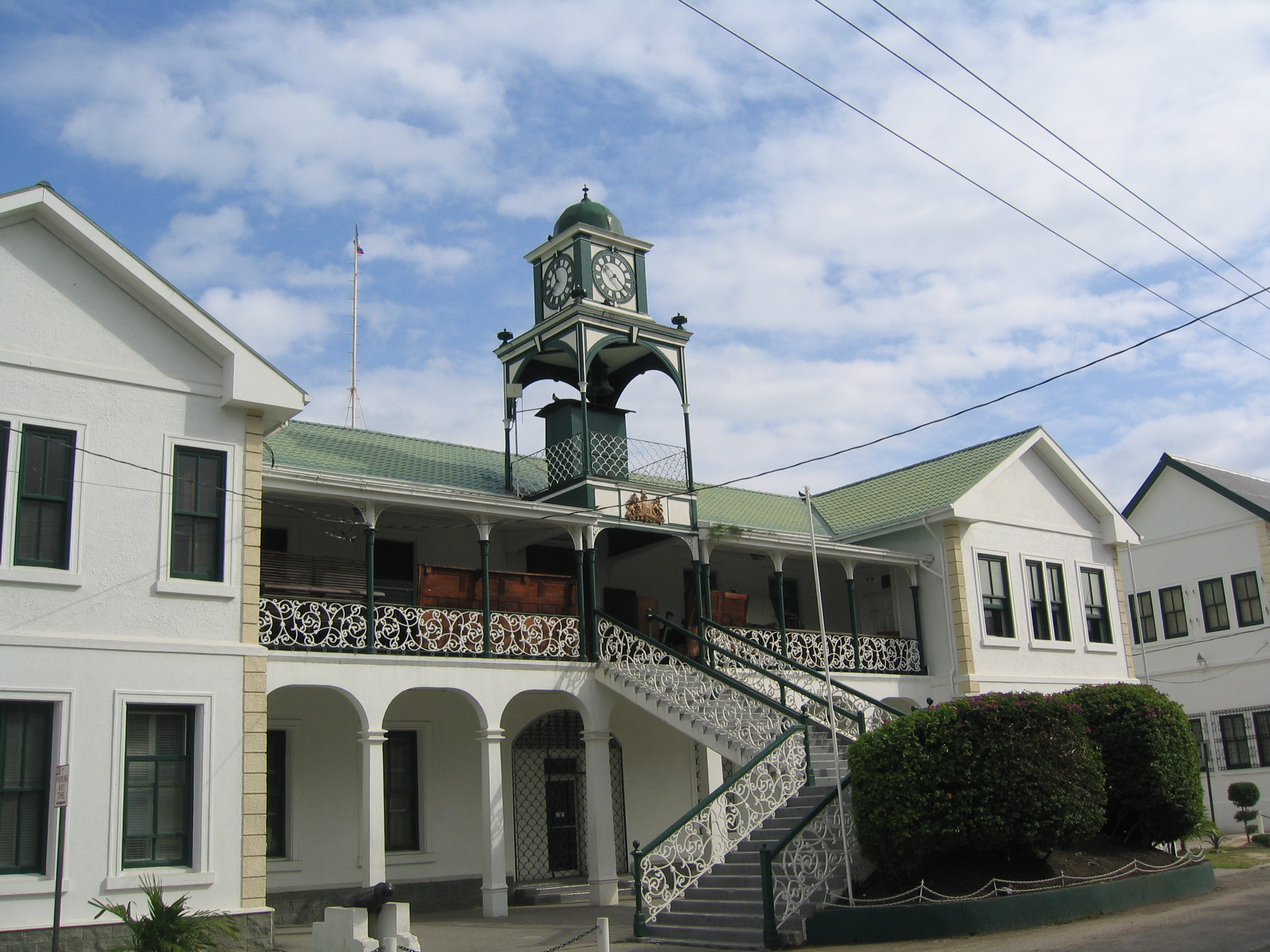 High Court Building, Belize City, Belize.